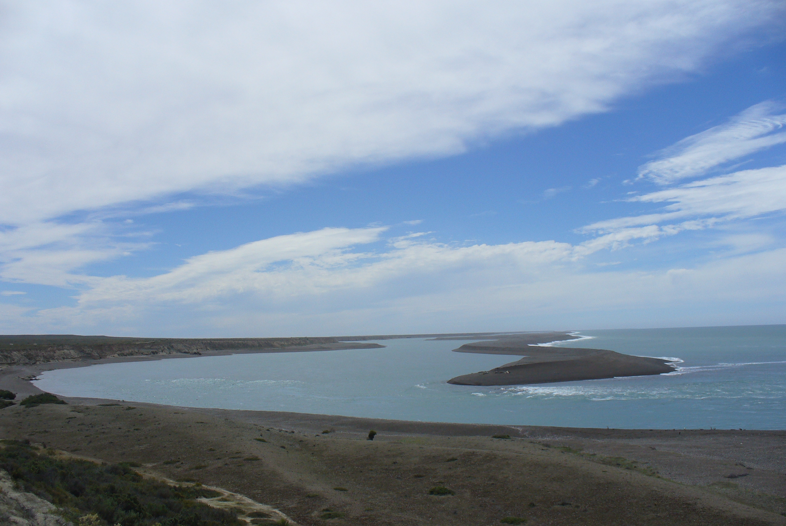 Caleta Valdés - inlet of the Valdes Peninsula in the Chubut Province, Argentina.